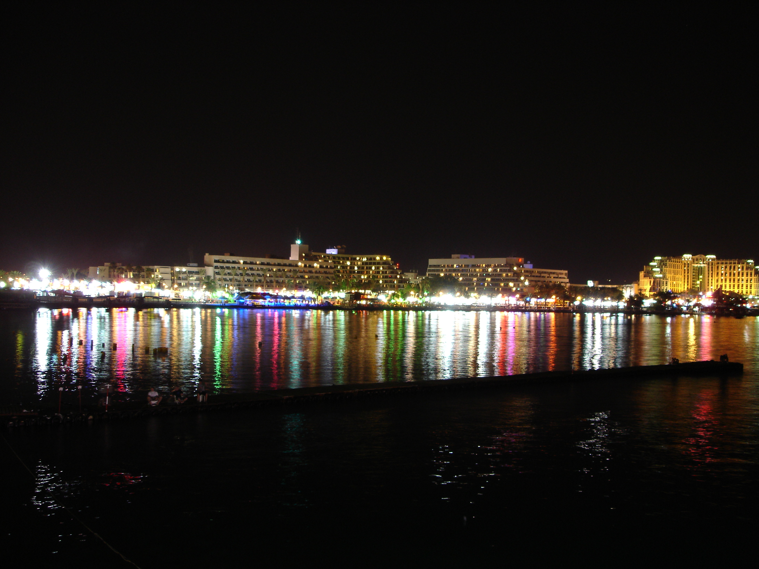 Night view of Eilat, at the southern tip of Israel